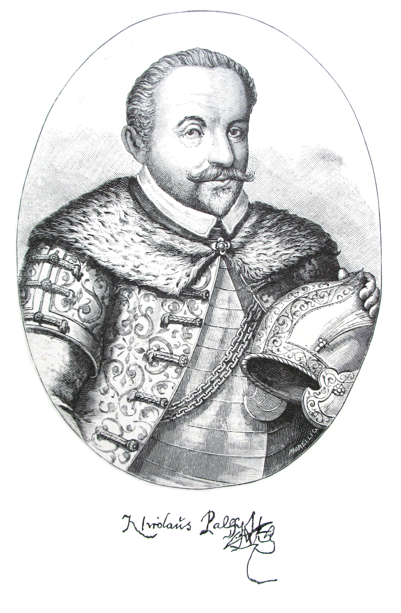 Nicolaus Palffy